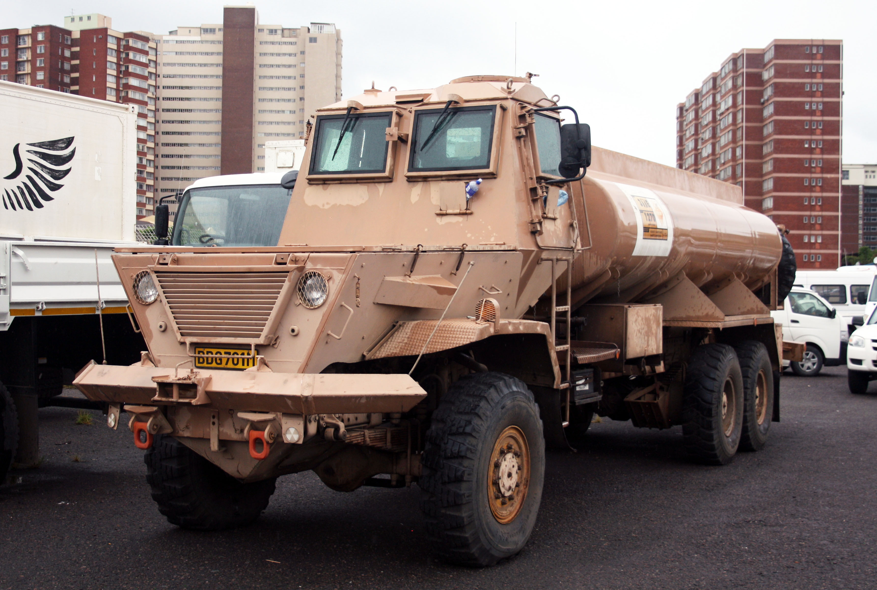 South African Army Samil 100 MPV fuel tanker